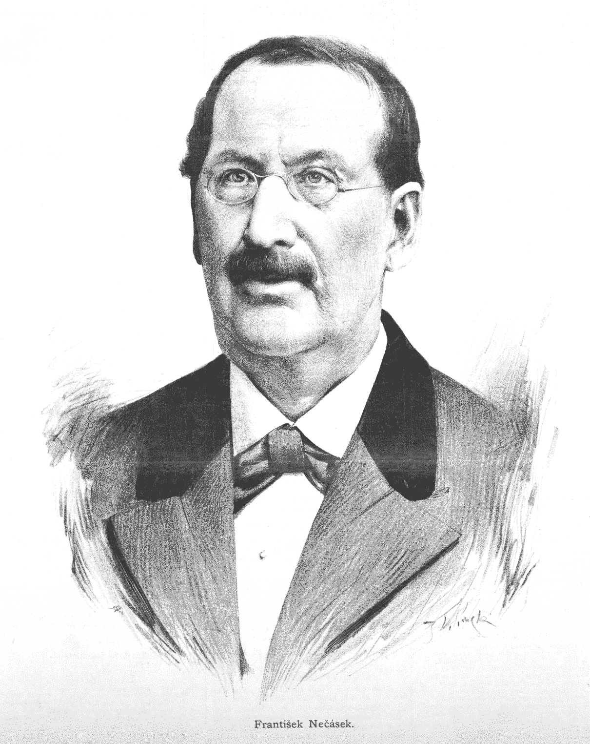 Portrait of František Nečásek (1811-1889), Czech writer.